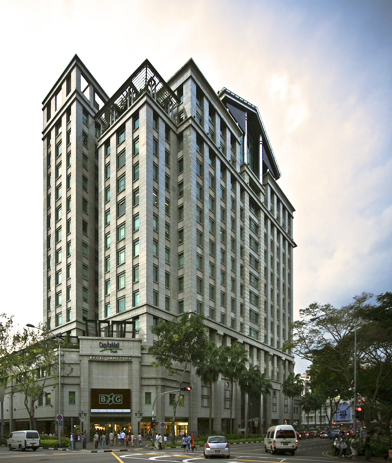 Bugis Junction in Singapore, seen from North Bridge Road.